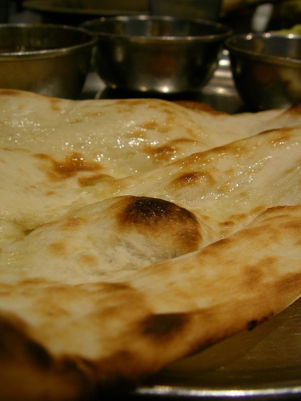 Indian Naan bread and curry served in Tokyo, Japan.